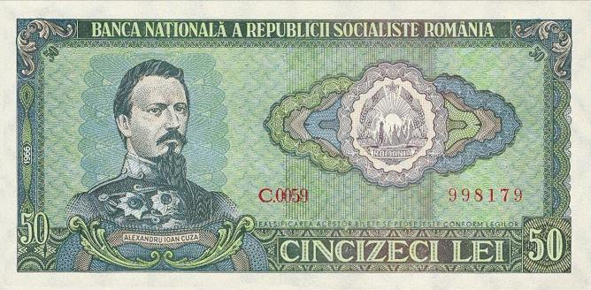 50 Romanian leu from 1966 - obverse